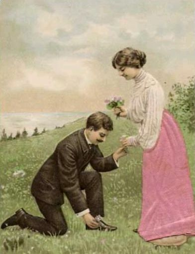 German postcard (1908 bought and stamped in Ohio, USA) with romantic 'spooning' couple stopped in an idyllic field of flowers. Her overskirt is layered rose pink Silk fabric over a tan underskirt